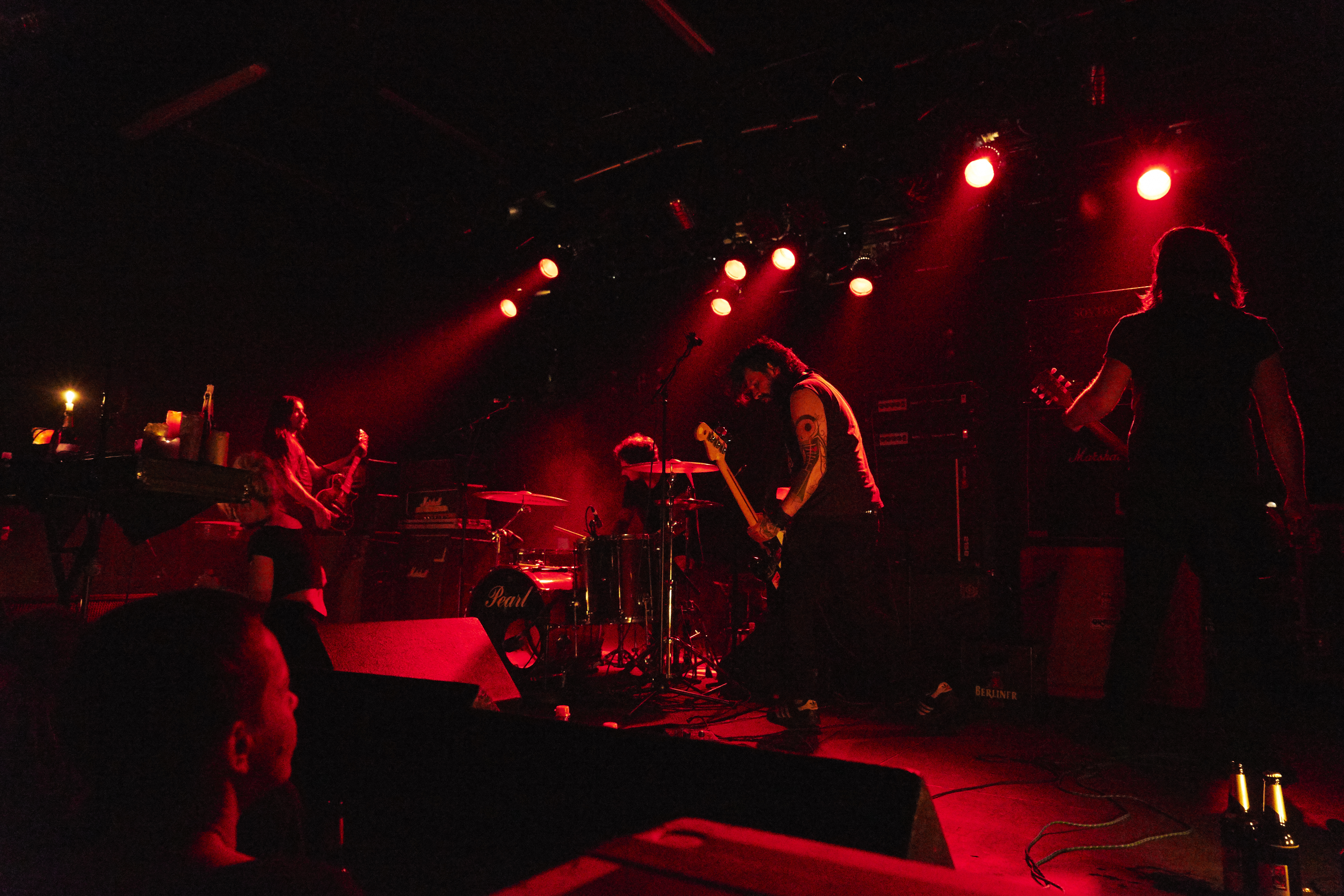 Monarch! at Droneberg Doom Festival, Berlin-Kreuzberg SO36, 16.04.2015 Festivalsommer This photo was created with the support of donations to Wikimedia Deutschland in the context of the CPB project "Festival Summer". Personality rights warning Although this work is freely licensed or in the public domain, the person(s) shown may have rights that legally restrict certain re-uses unless those depicted consent to such uses. In these cases, a model release or other evidence of consent could protect you from infringement claims.